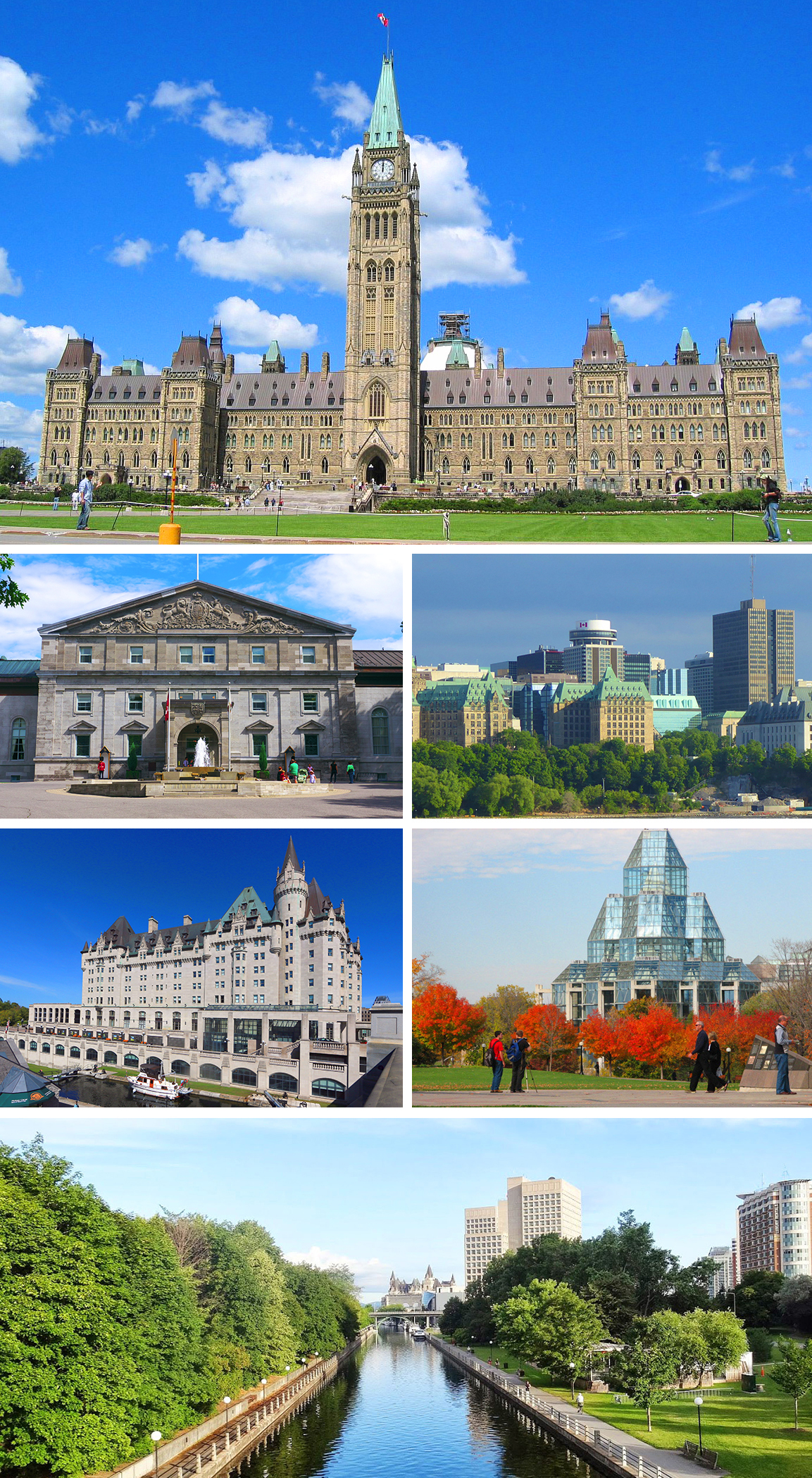 This is a montage of Ottawa for 2020